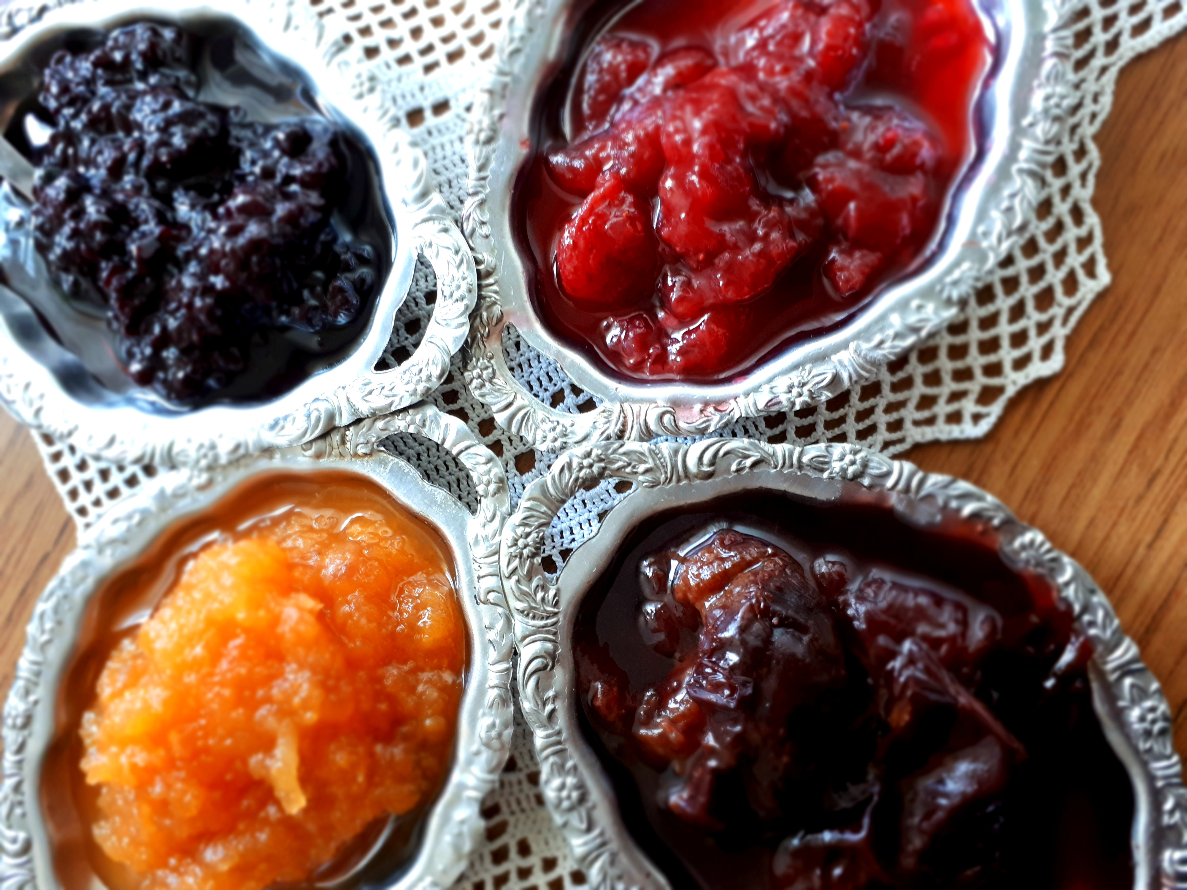 Marmalade - apricot, plums, strawberry, blackberry fruit preserve